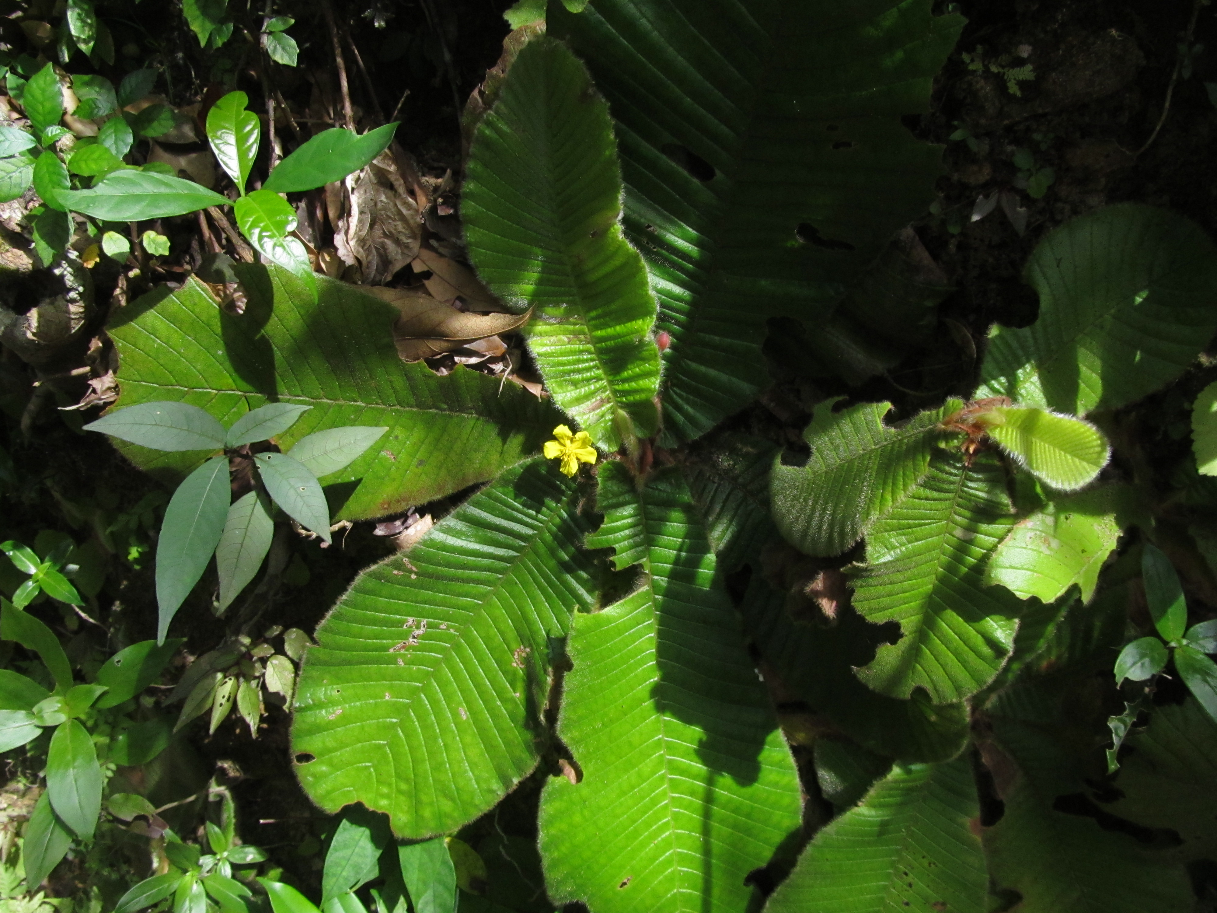 The plant belongs to the family Dilleniaceae, growing in deep shade in evergreen forests of the western ghats. Photo taken in Peppara Wildlife Sanctuary, Kerala